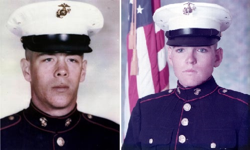 Charles McMahon and Darwin Judge, the last two US personnel servicemen killed in South Vietnam during the Vietnam War.